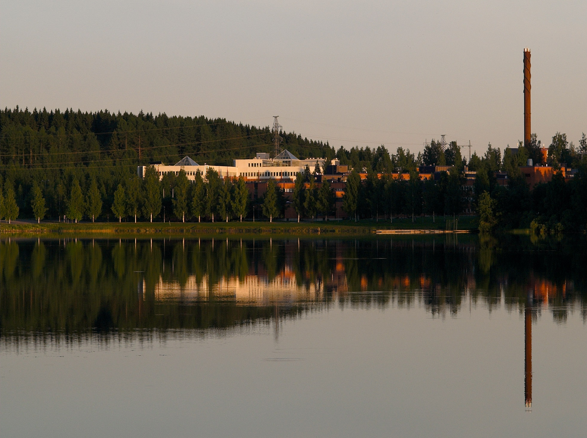 University of Kuopio campus in Kuopio, Finland. In front: Snellmania, university main building (red). In background: Tietoteknia (white).